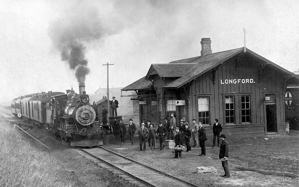 Atchison, Topeka and Santa Fe Railway depot in Longford, Kansas. The depot was built in 1887.